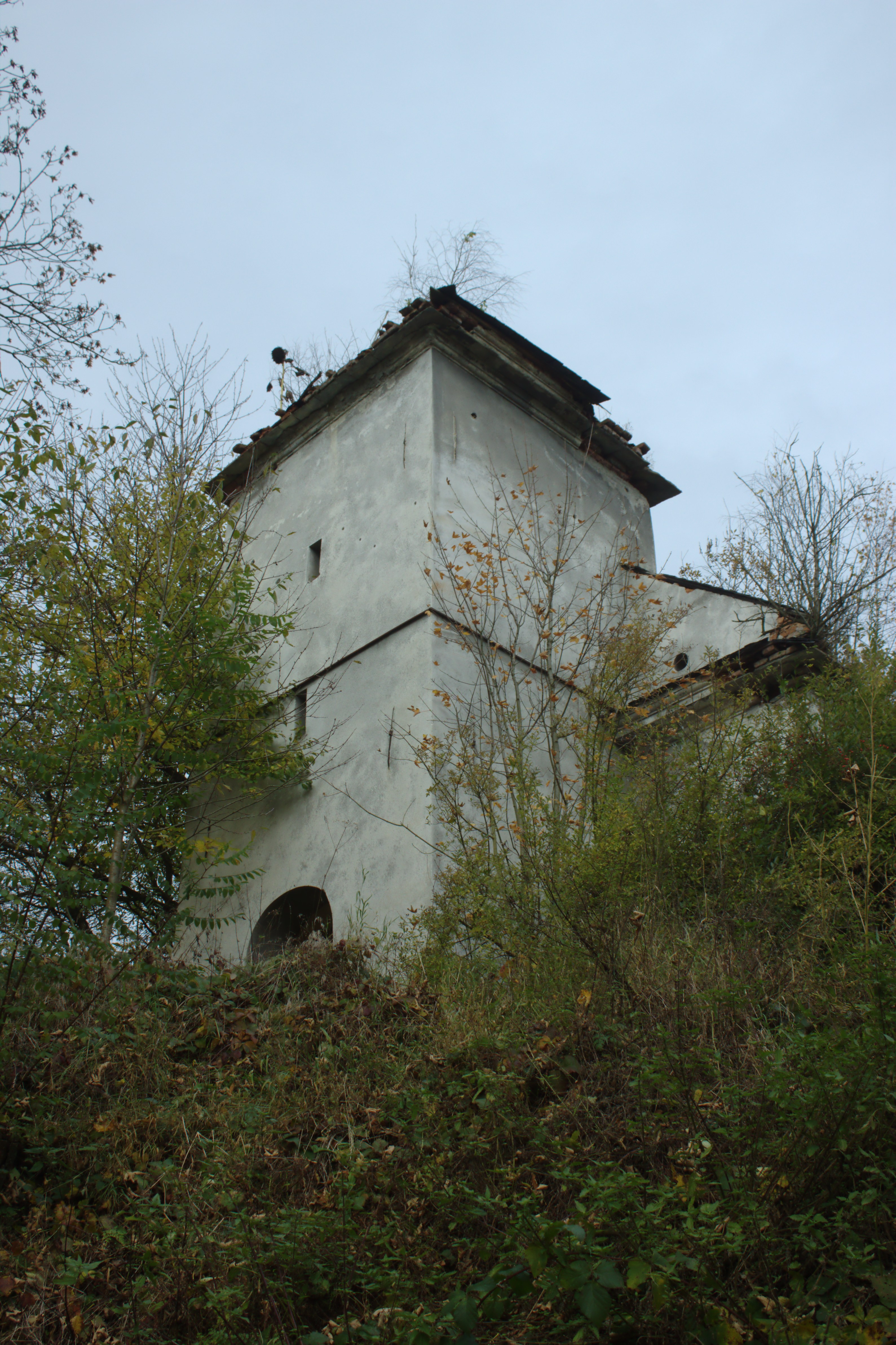 A tower of the abandoned chapel of st. Michael in Slezská Harta, Moravian-Silesian Region, CZ